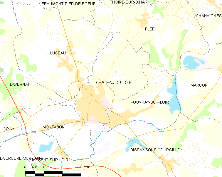 Map of French municipality